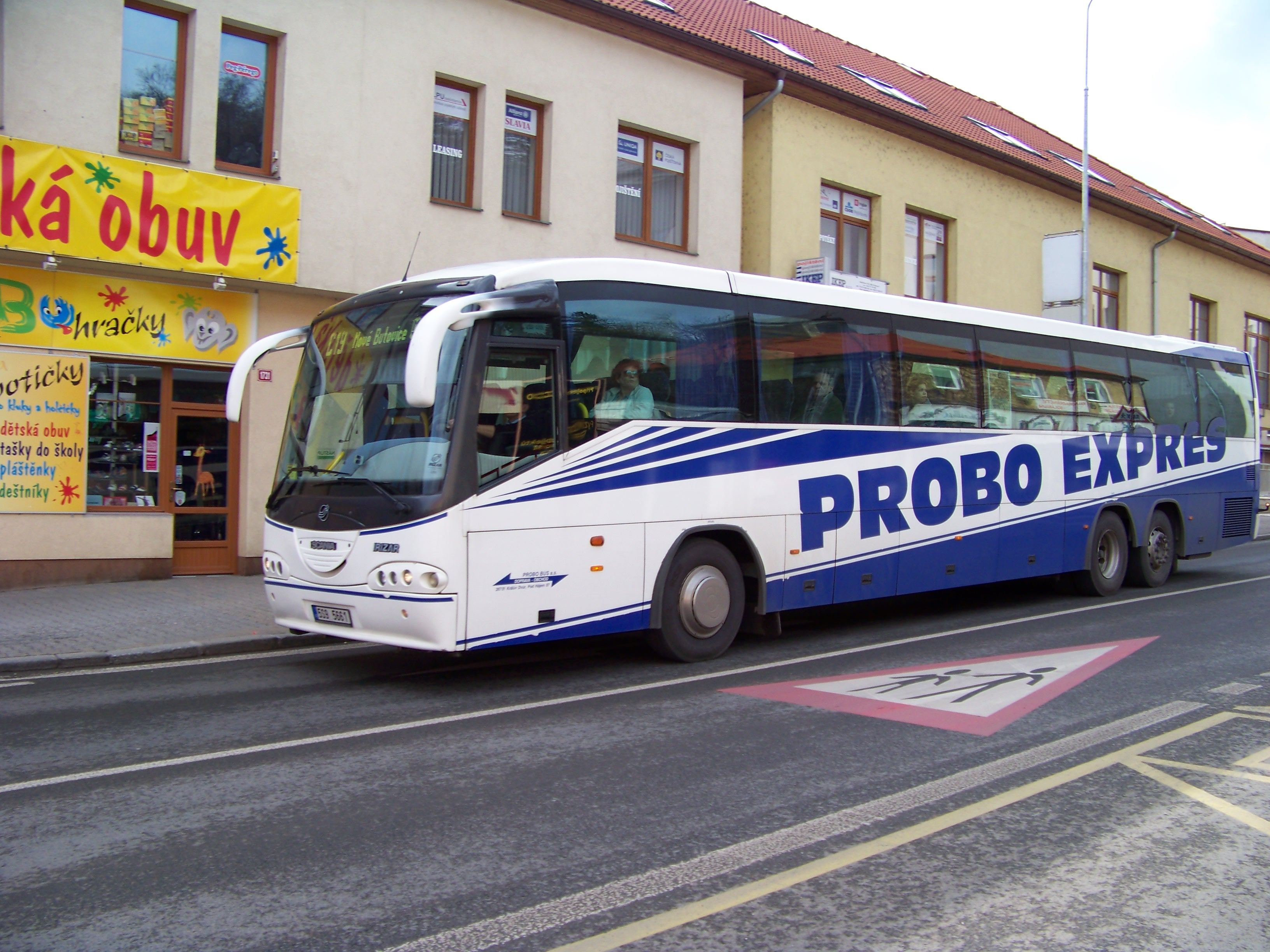 Beroun, Beroun District, Central Bohemian Region, the Czech Republic. Plzeňská Street, Probo Expres.